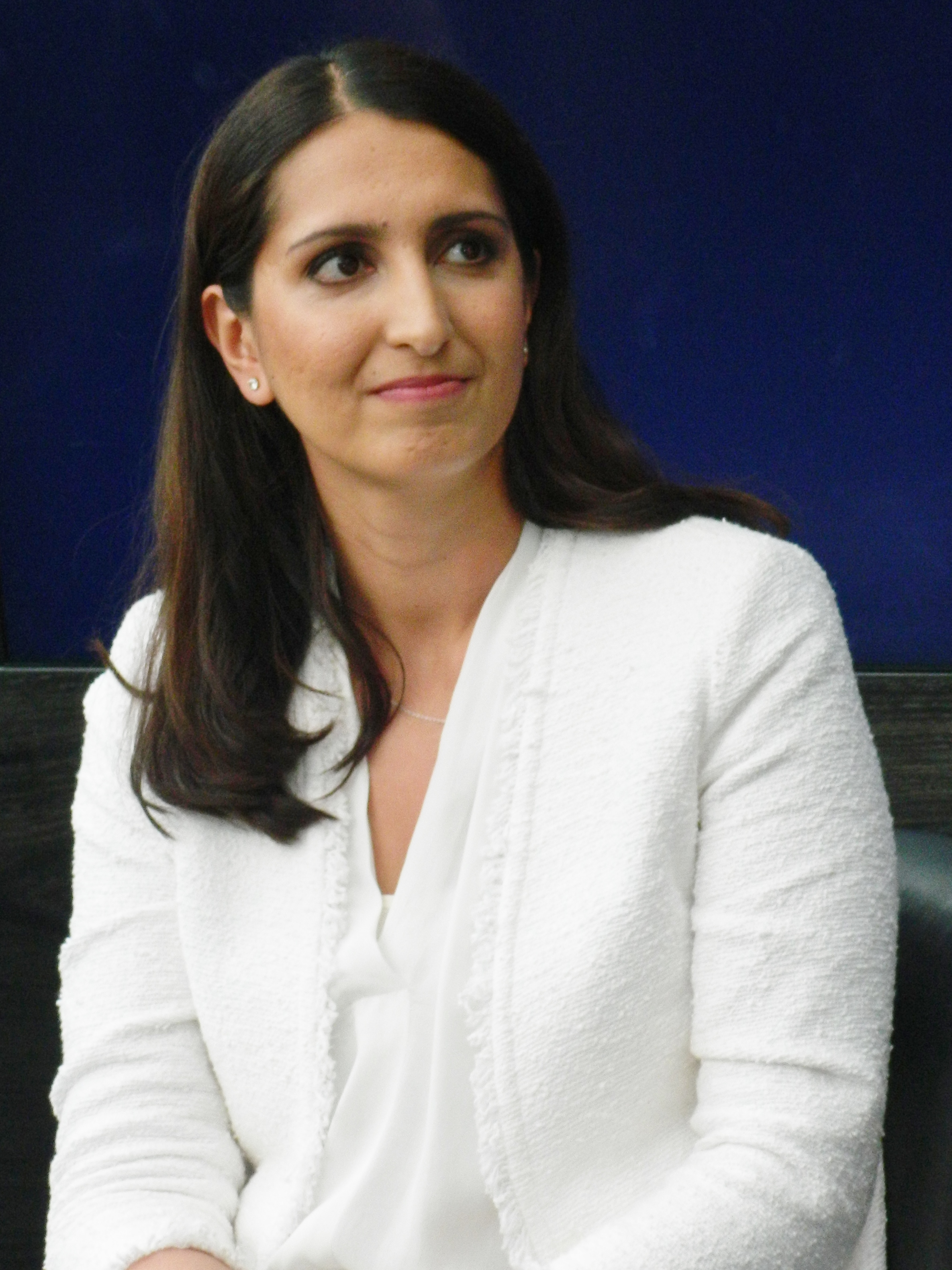 Nasima Razmyar the Helsingin Sanomat Media Center, Helsinki